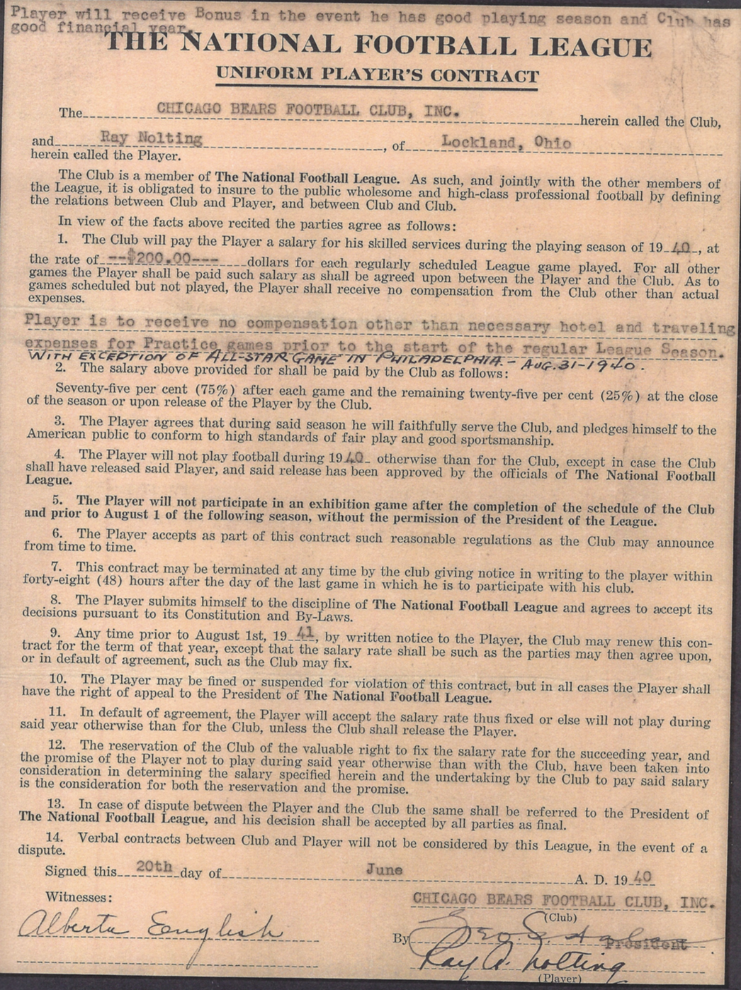 Ray Nolting's 1940 NFL contract for the Chicago Bears. Signed by George Halas.